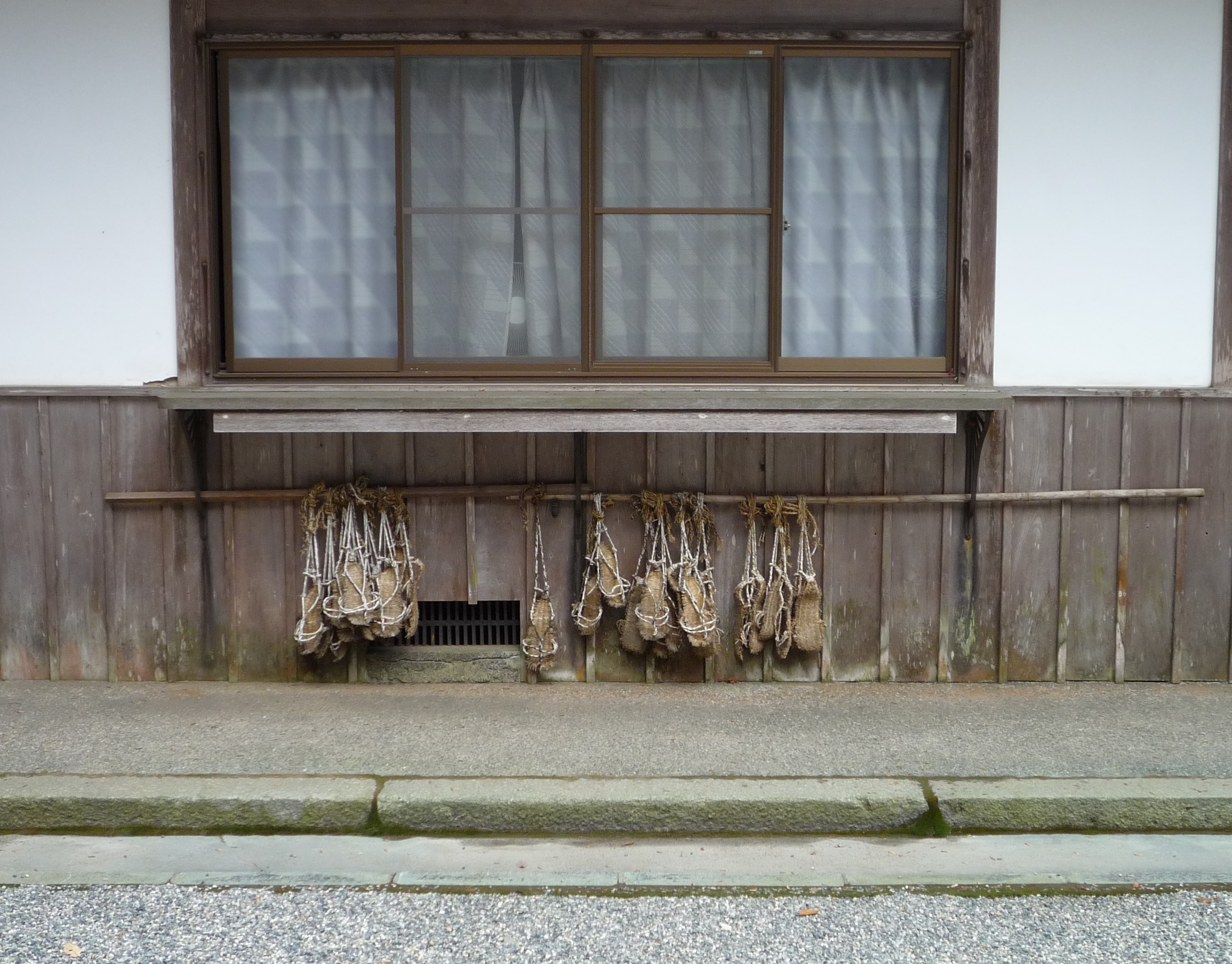 Worn Waraji of the Tendai Sennichi-Kaihōgyō-monks